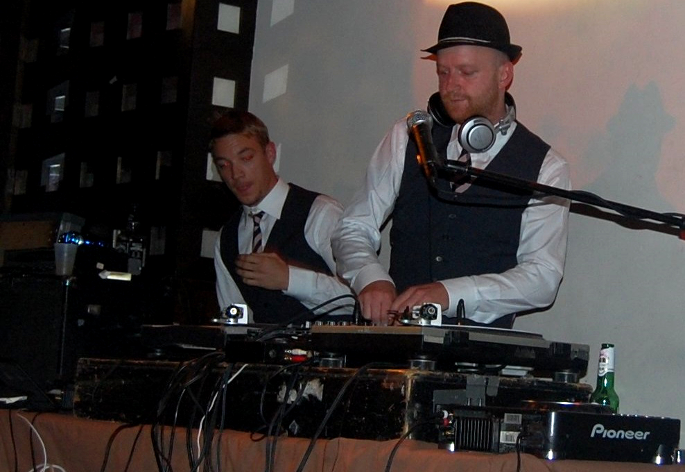 Cropped edit of